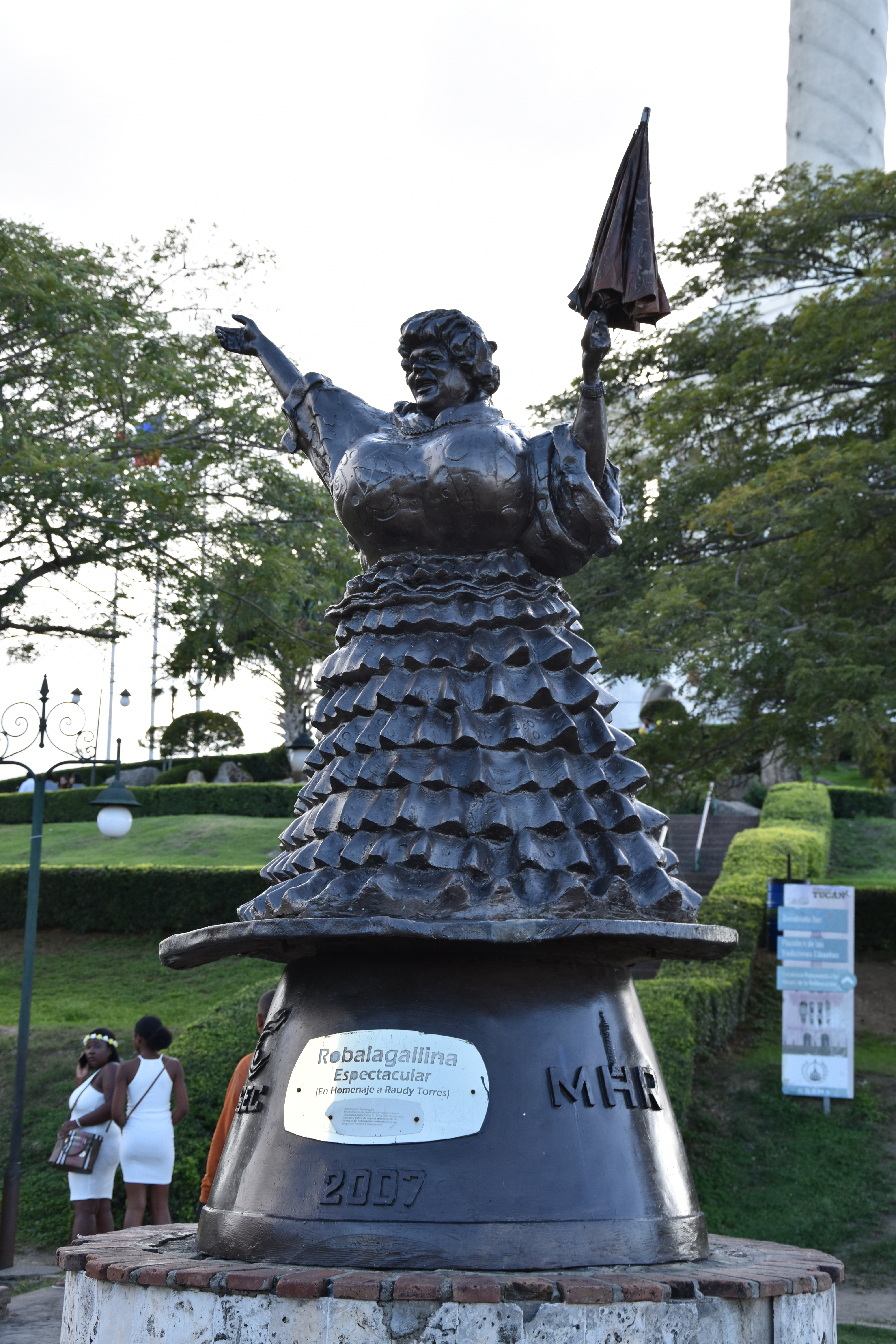 The Monumento a los Héroes de la Restauración in Santiago de los Caballeros, Dominican Republic.